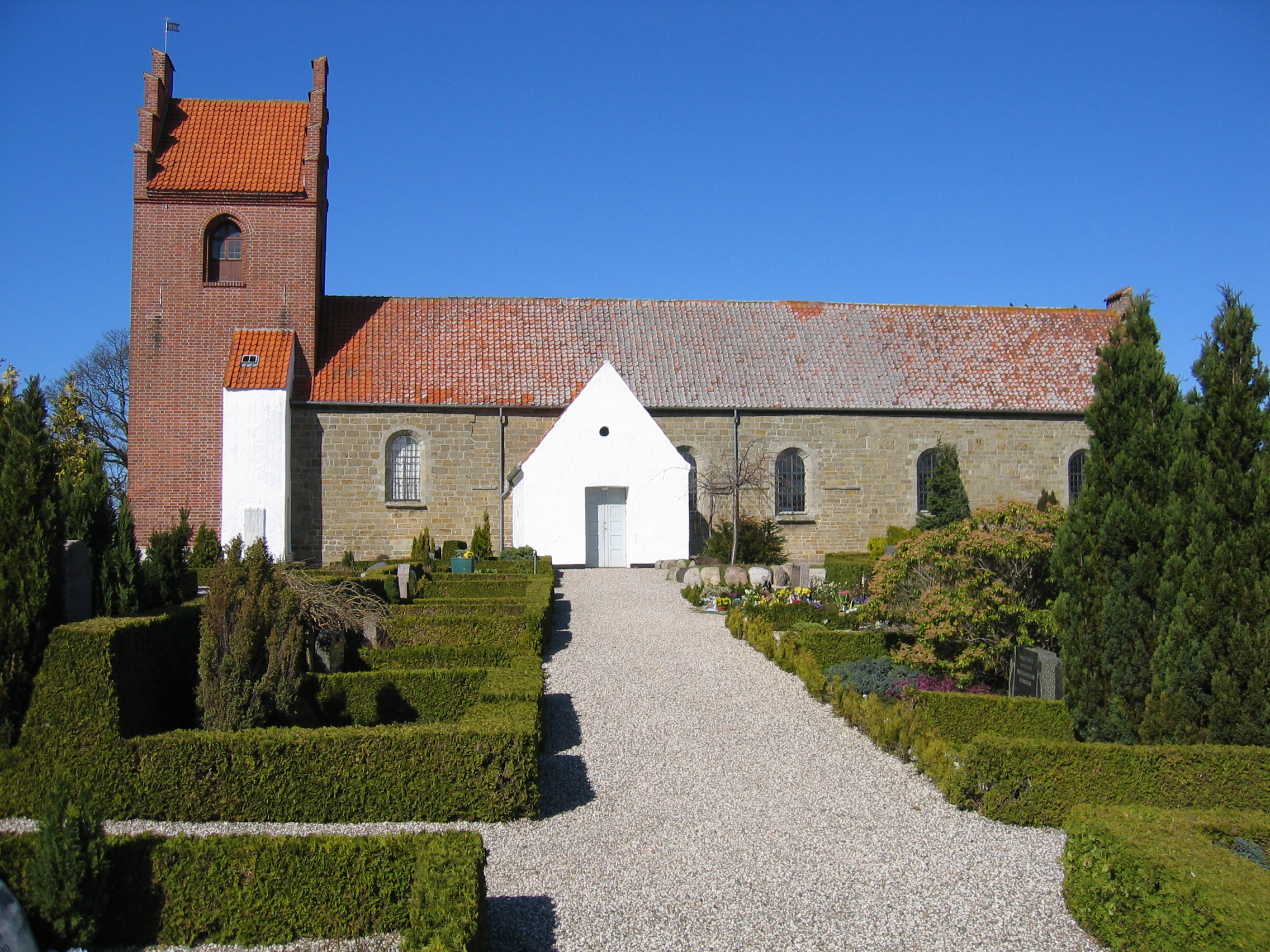 Vejby Church, Vejby parish, Holbo Herred, Frederiksborg County, Denmark.